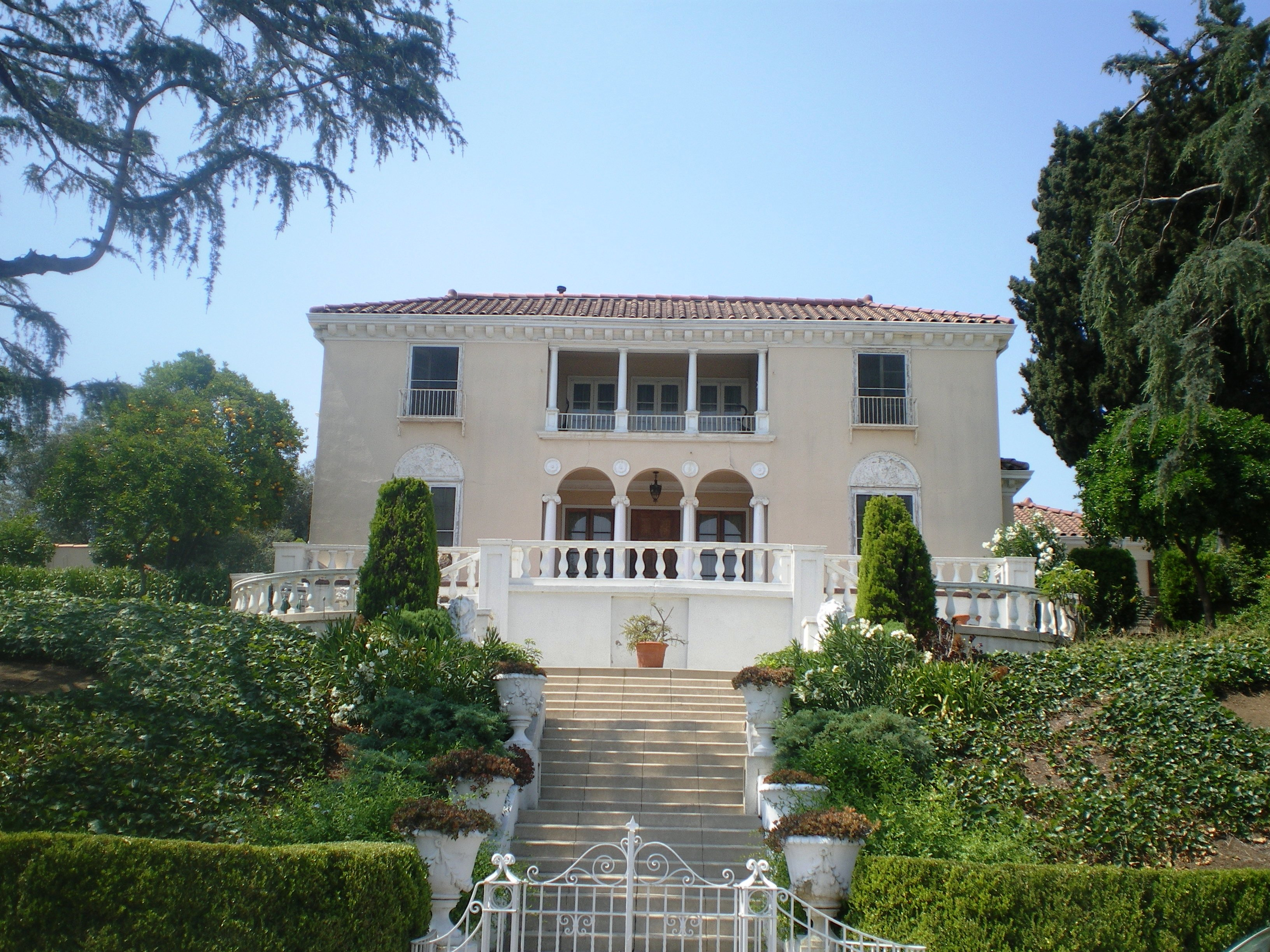 H.J. Whitley House — in the 6600 block of Whitley Terrace, in the Whitley Heights neighborhood of Los Angeles, California. Part of the Whitley Heights Historic District. H.J. Whitley was the owner/developer of Whitley Heights, a 1920s development designed as “a Mediterranean hill town”. 1920s residence is a Historic district contributing property within the NRHP Whitley Heights Historic District, and the Whitley Heights Los Angeles Historic Preservation Overlay Zone.